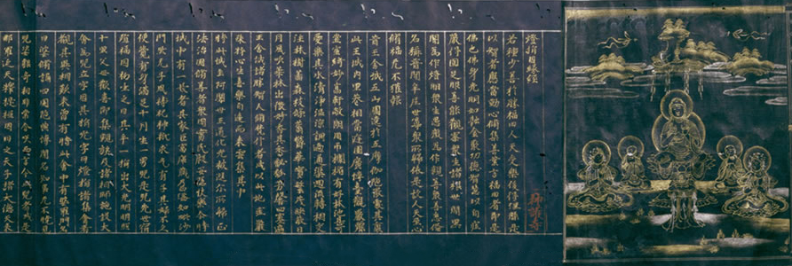 Tōshiinnen-kyō, Otani University Museum, Kyoto, Kyoto, Japan